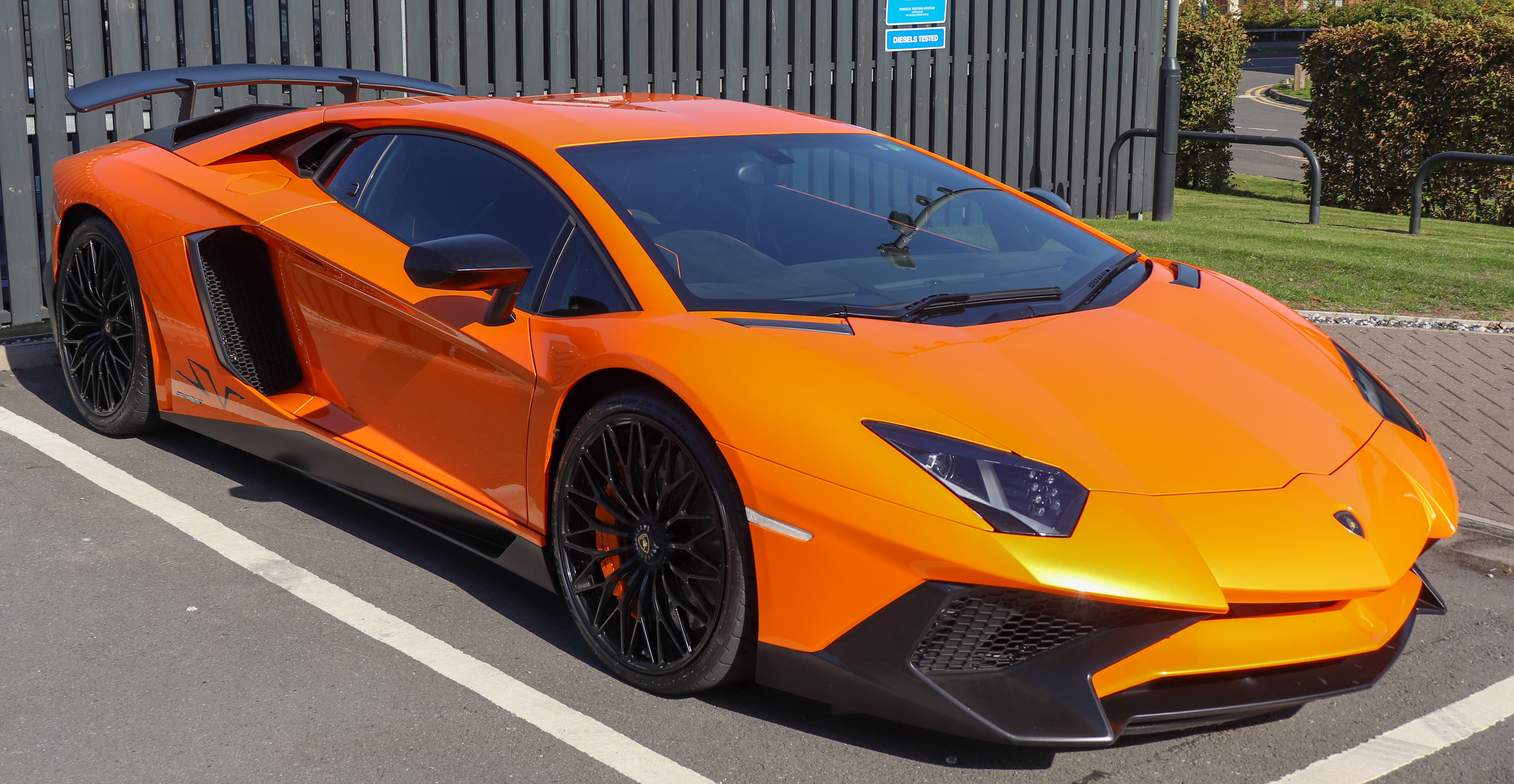 2016 Lamborghini Aventador LP 750-4 SV S-A 6.5 Front Taken in Solihull